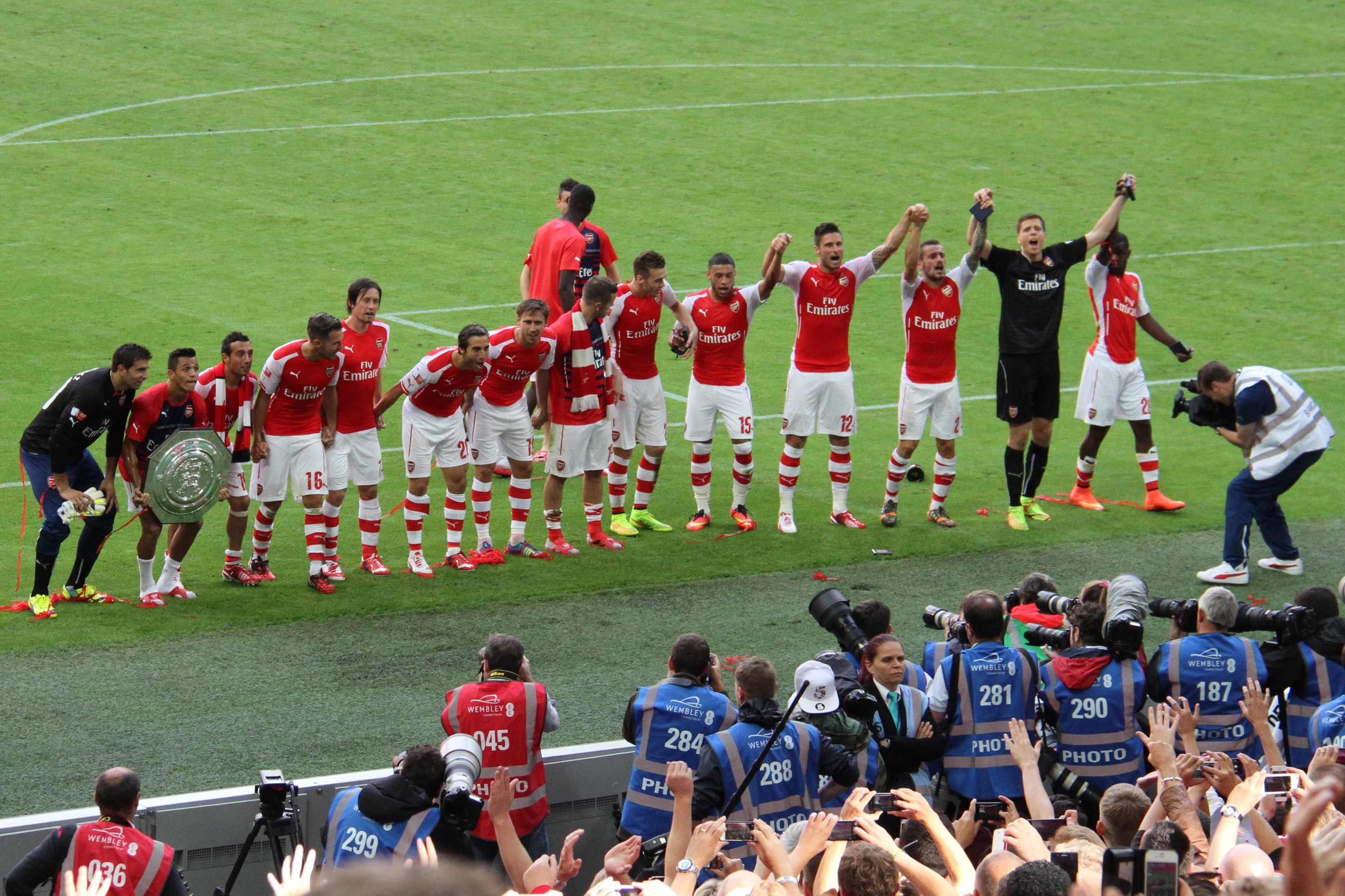 Community Shield 60 - Celebrations